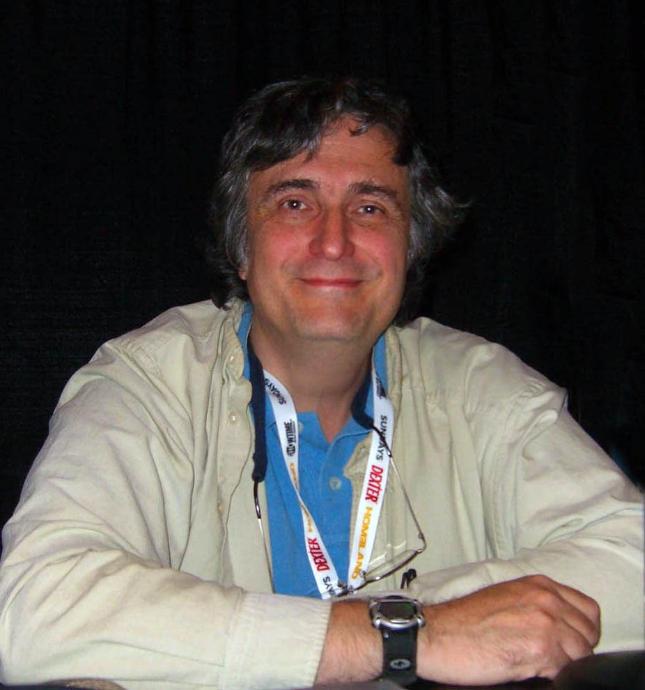 Author Stefan Petrucha at the Saturday zombie discussion panel on Day 3 of the 2012 New York Comic Con, Saturday October 13, 2012 at the Jacob K. Javits Convention Center in Manhattan. This photo was created by Luigi Novi. It is not in the public domain, and use of this file outside of the licensing terms is a copyright violation.